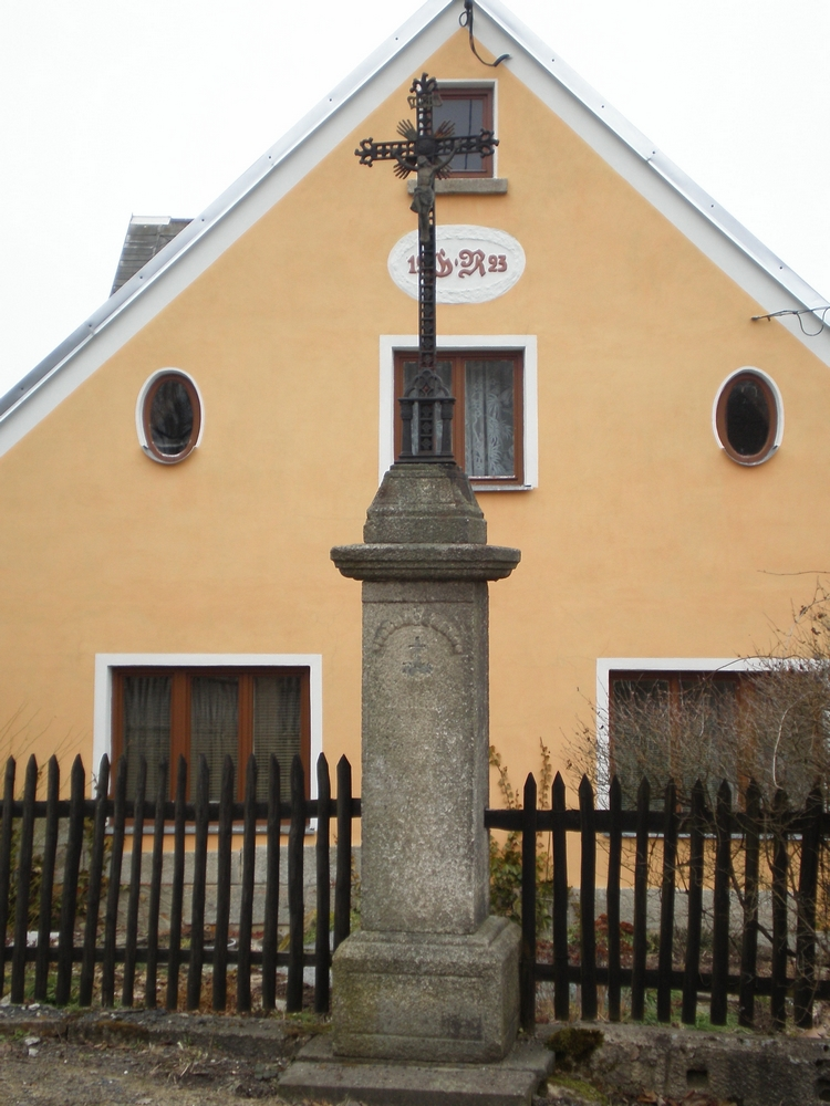 Skalka (Hazlov), Czech Republic, column of the crucification